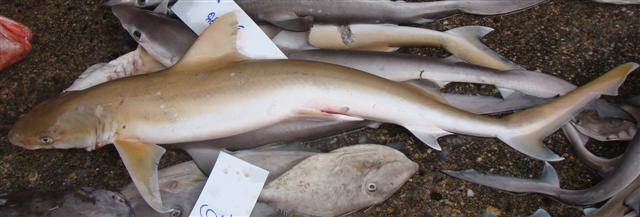 Sicklefin weasel shark (Hemipristis microstoma) at Ranong Fishing Port, Thailand